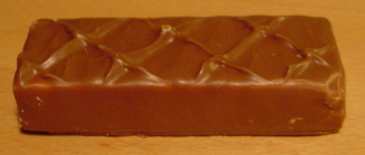 This is the European version of the Milky Way, purchased March 2005 Picture by user:Thue.